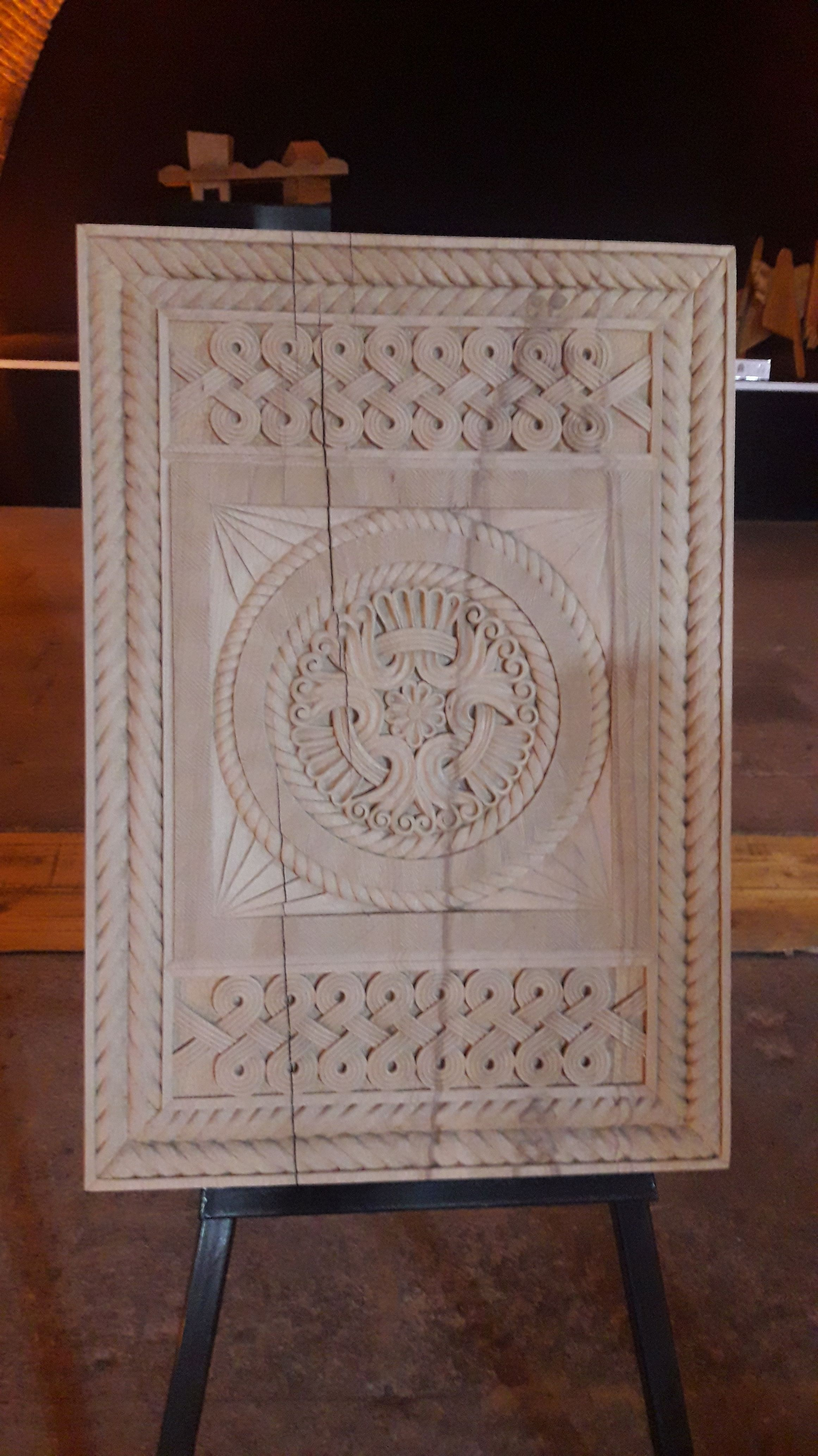 Eskişehir Woodworking Museum 2, Turkey (Mecit Çeliktaş's work)